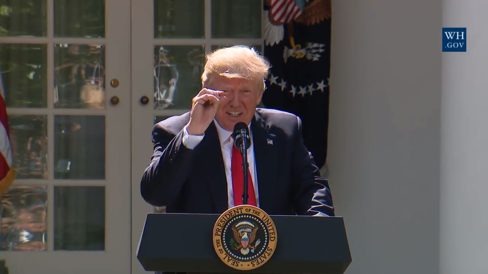 President Trump Makes a Statement Regarding the Paris Accord